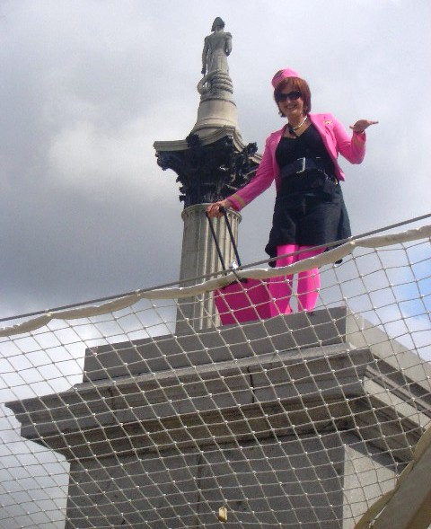 Karen Ogilvie "performing" between 4:00 and 5:00 pm on 17 July 2009 on the fourth plinth at Trafalgar Square, London, as part of Antony Gormley's art project One & Other.